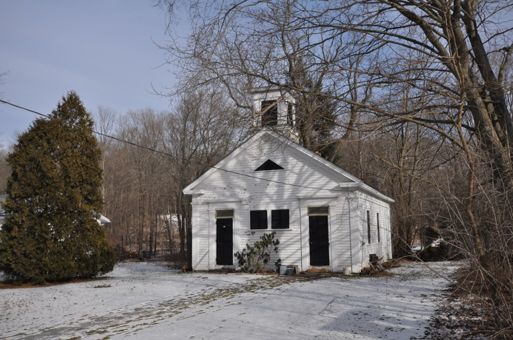 The District Six Schoolhouse, part of the Old Town Historic District in North Attleborough, Massachusetts.